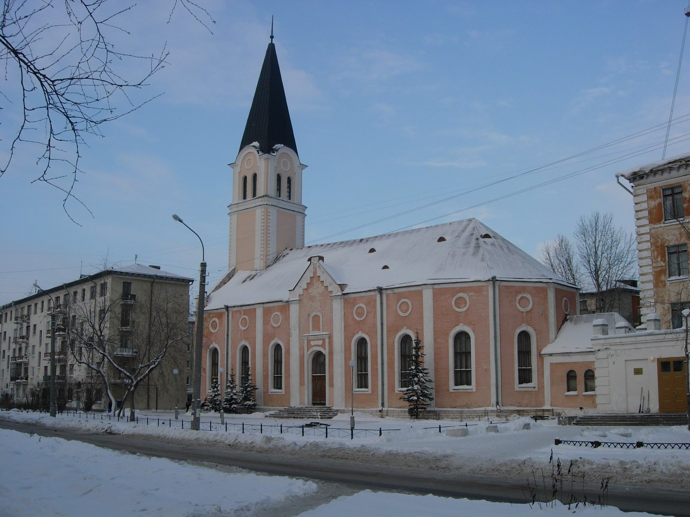 Lutheran kirka of St. Catherine in Arkhangelsk, made into a concert hall during the russian revolution